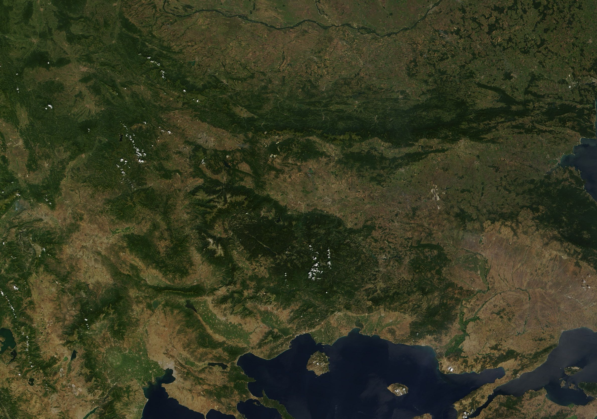 Satellite image of the Balkan mountains (Stara Planina). The mountain range is running across the territory of Bulgaria.